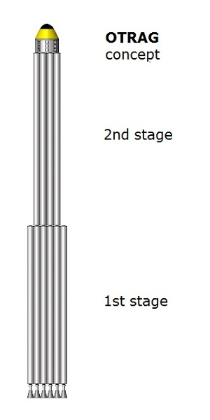 OTRAG rocket concept shape.